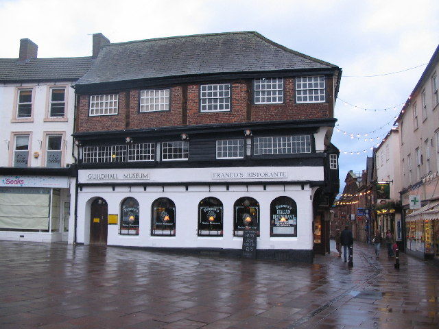 The Guildhall, Carlisle. A view looking north to the Guildhall, Carlisle. This building now houses a restaurant and a museum.